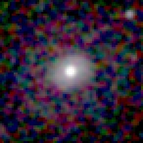 Ring galaxy ESO 198-13.